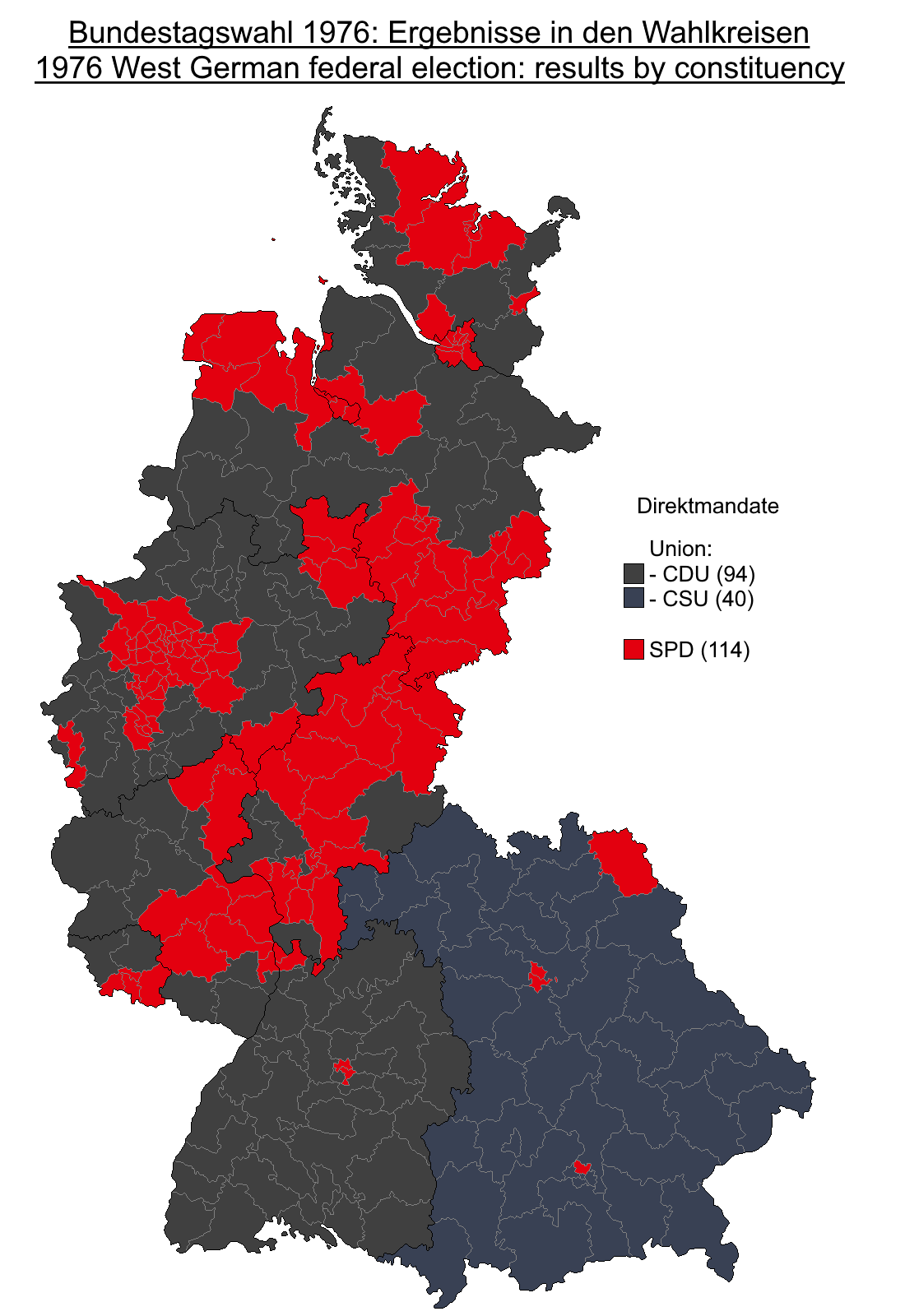 Results of the (West) German federal elections of 1976, showing direct seats won by party